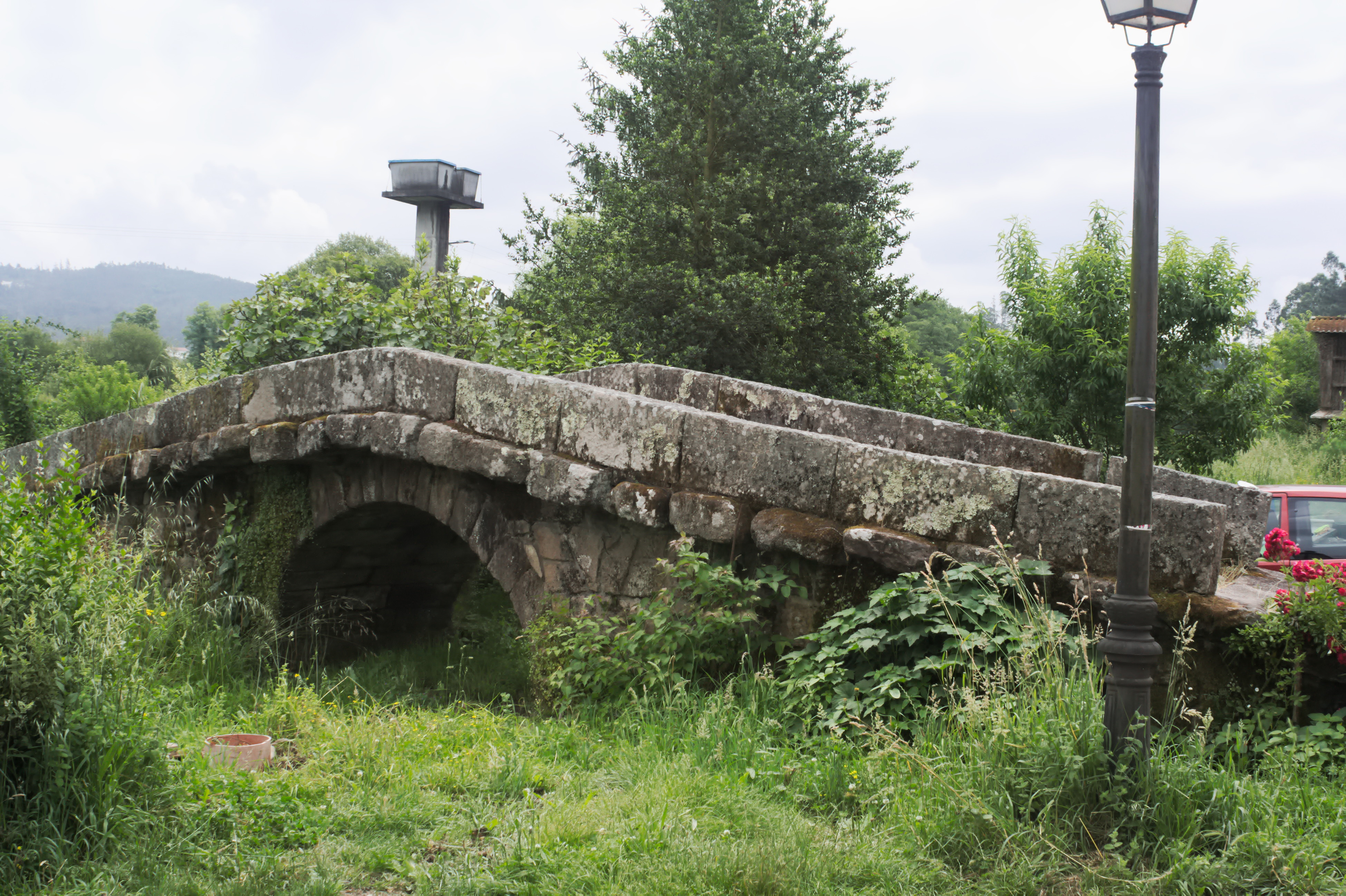 Bridge in Augapesada, council of Ames, Galicia, Spain.